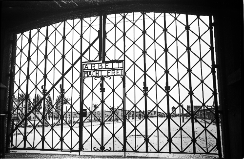 Main entrance in Dachau Camp